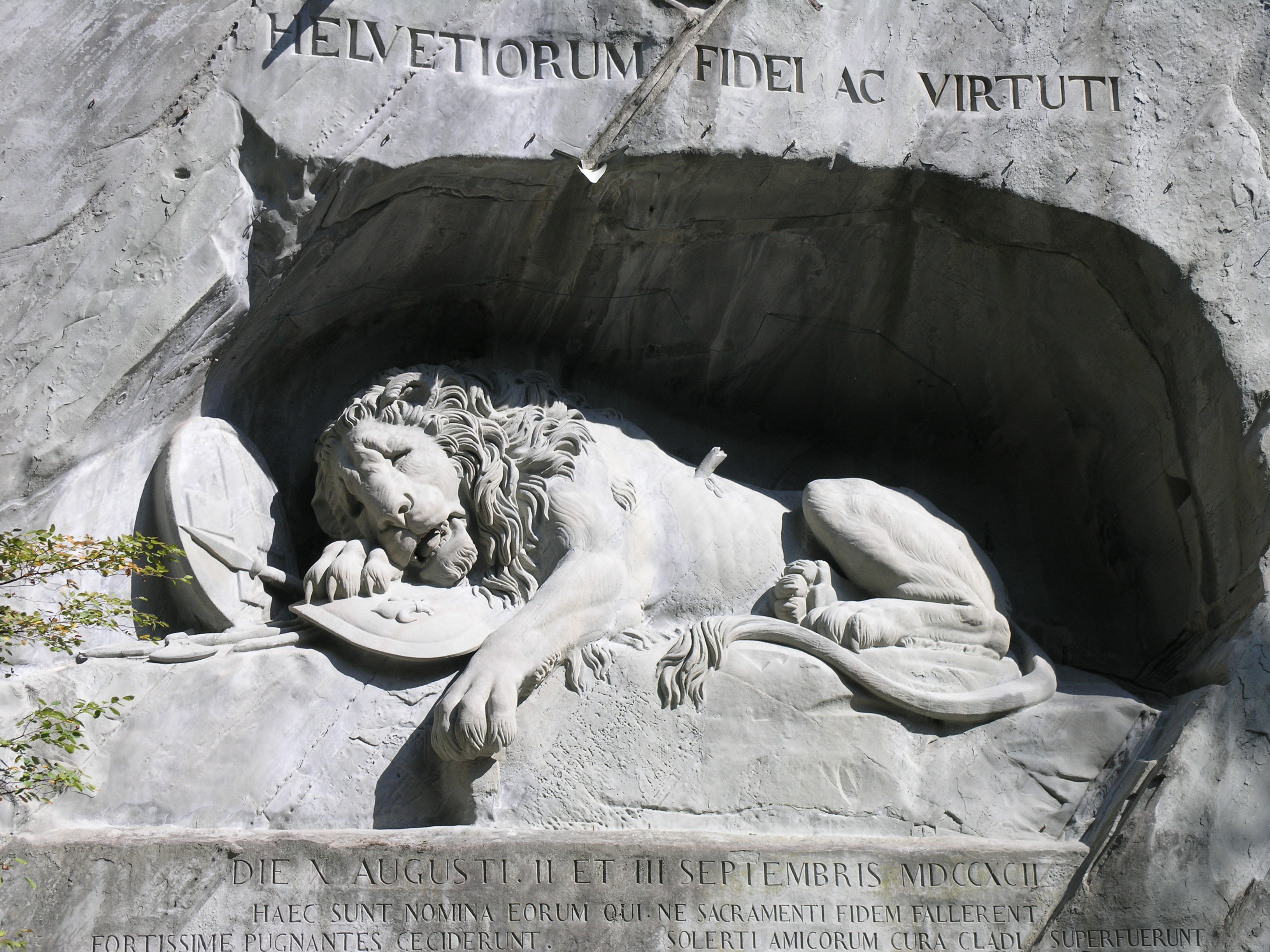 Lion Monument Luzern